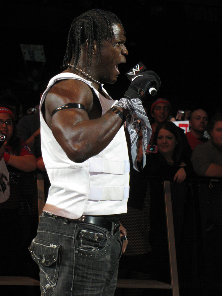 R-Truth @ Adelaide, South Australia 'RAW' house show on the 4th of July '11.